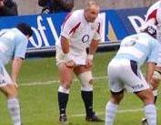 England Argentina